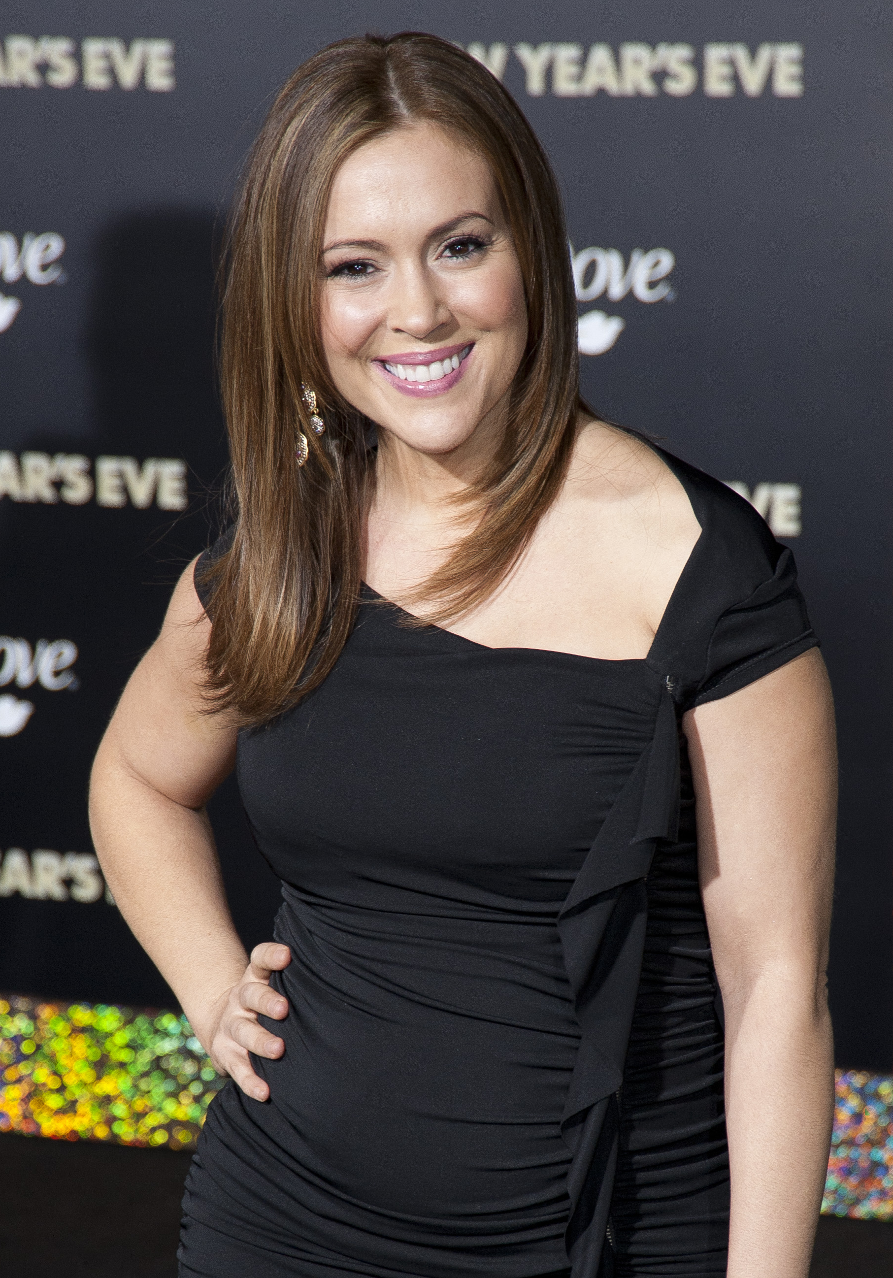 Actress Alyssa Milano arrives at the Premiere of Warner Bros. Pictures' 'New Year's Eve' at Grauman's Chinese Theatre in 2011.